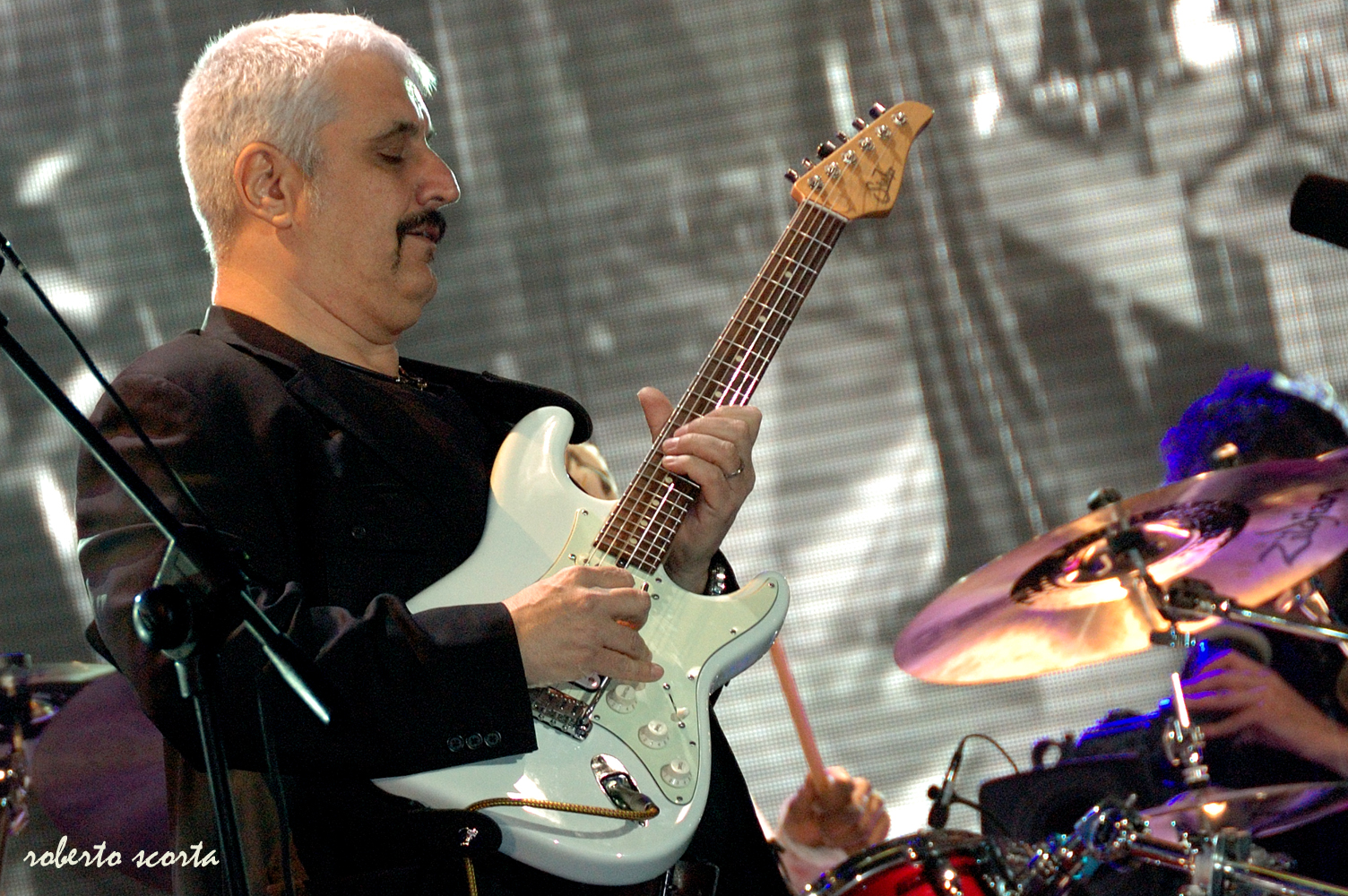 Earth Day 2010 - Concerto Circo Massimo, Roma